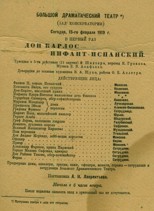 Don Carlos performance poster, Tovstonogov Bolshoi Drama Theater